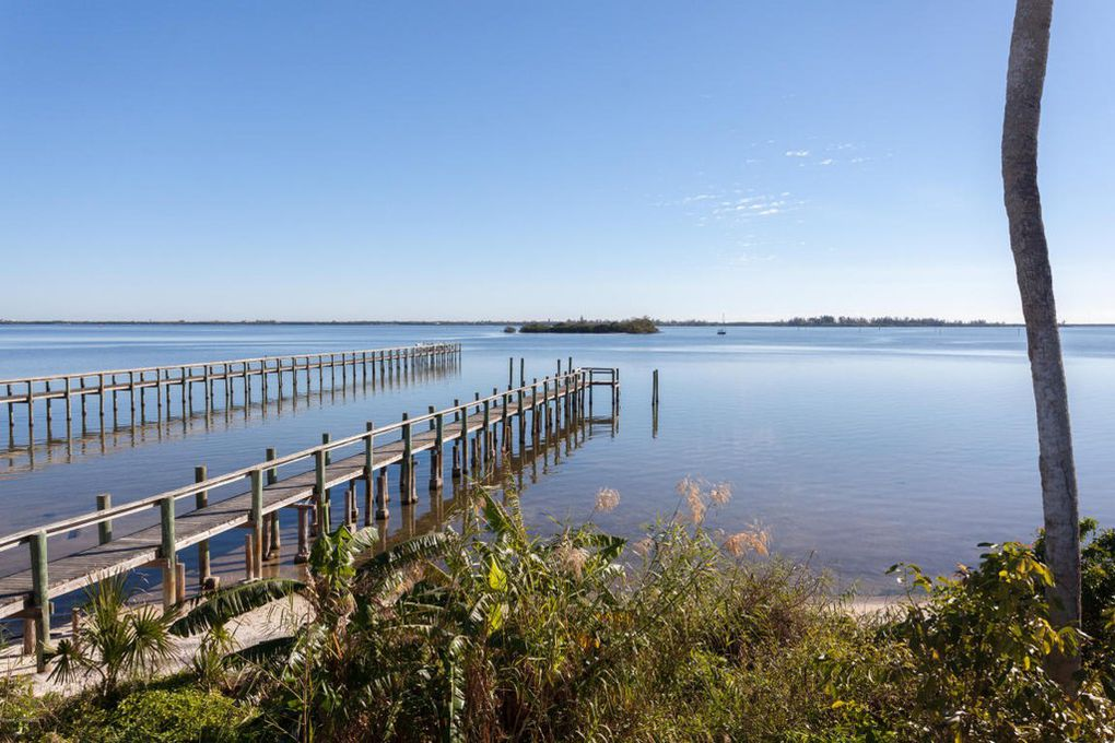 Micco,FL